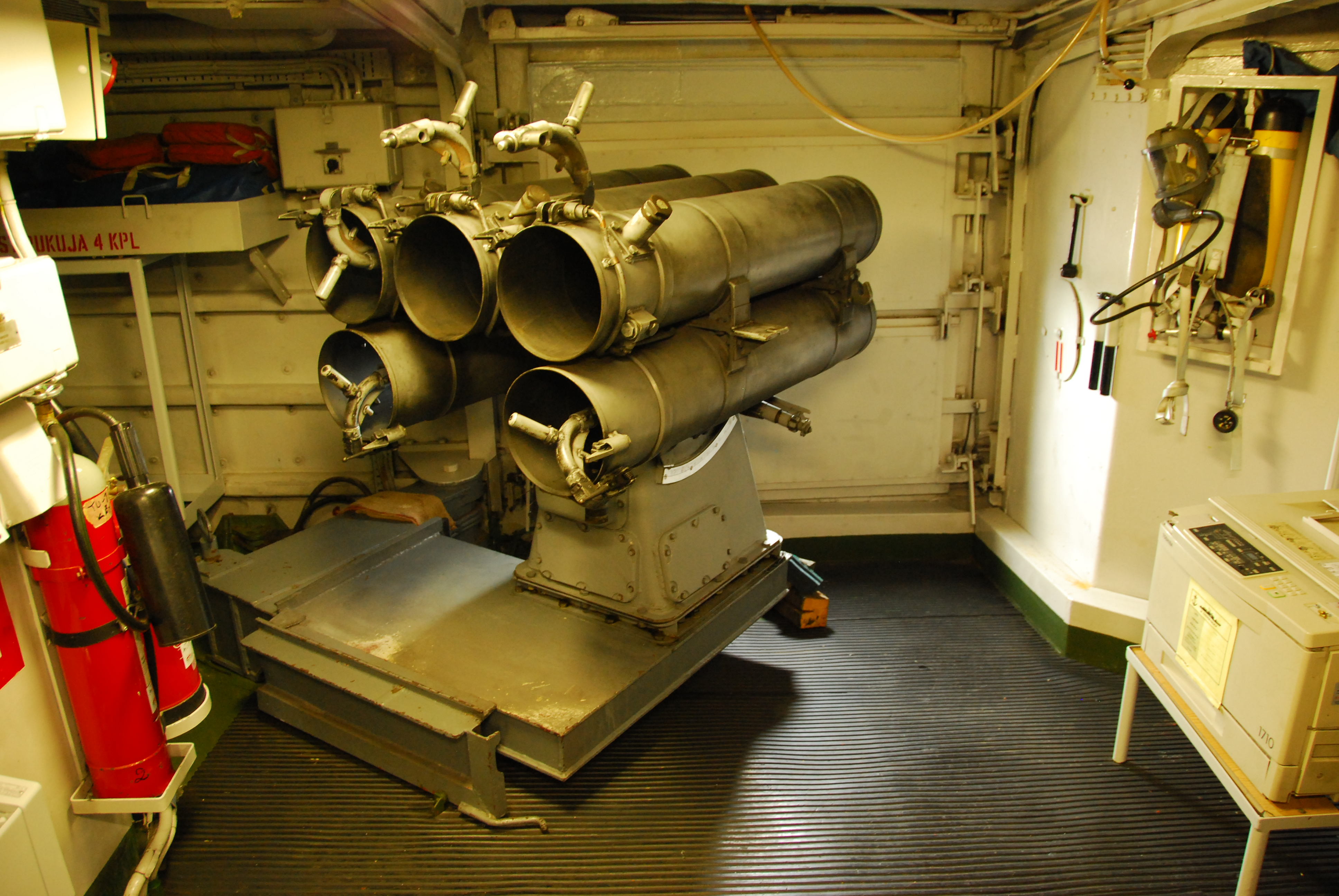 RBU-1200 antisubmarine rocket launcher from finnish navy gunboat Karjala. Forum Marinum maritime museum, Turku, Finland.